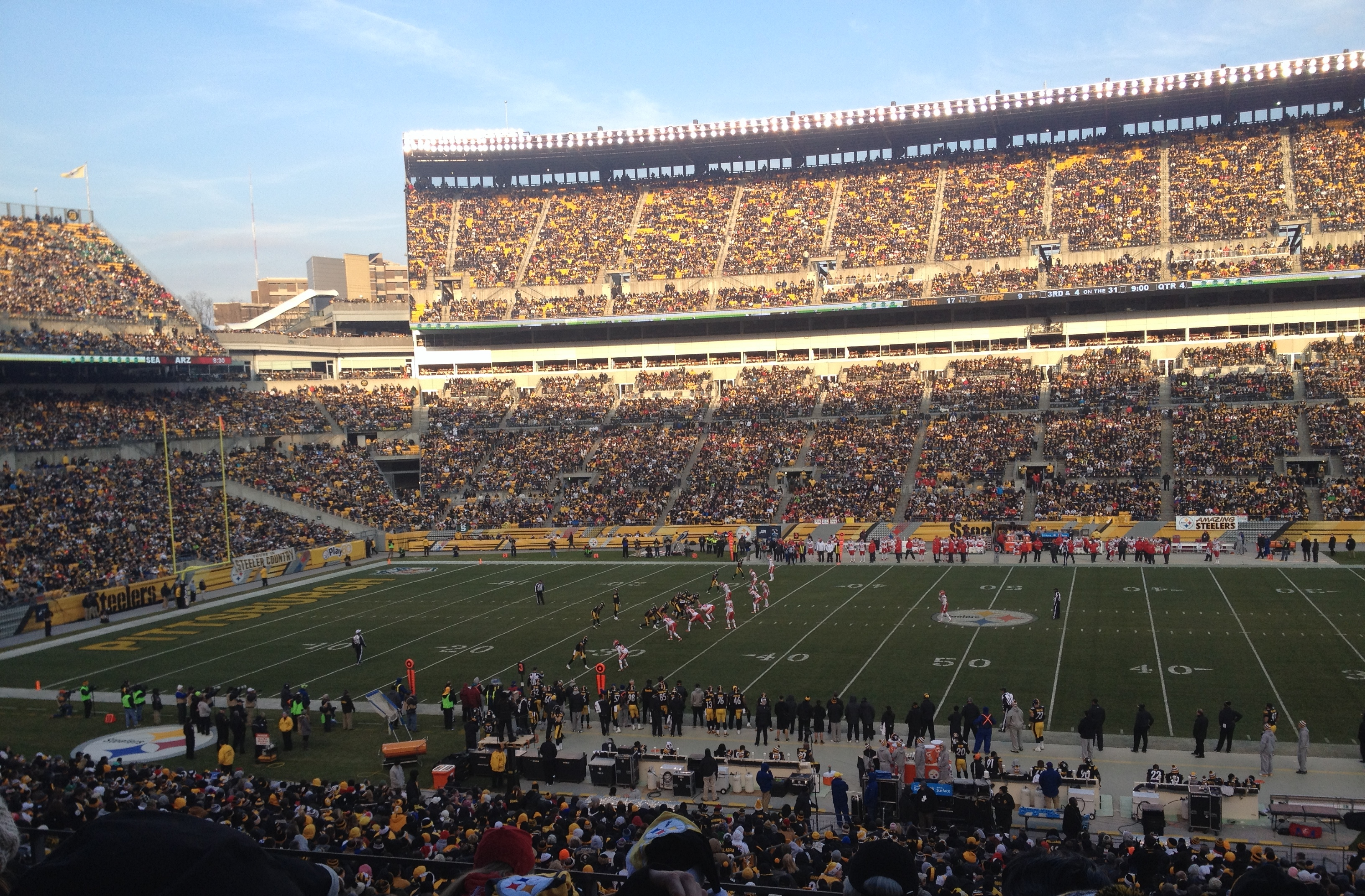 Pittsburgh Steelers vs. Kansas City Chiefs NFL American football game at Heinz Field in Pittsburgh, Pennsylvania. This photo was taken during the fourth quarter, with the Steelers on offense; the score is Steelers 17, Chiefs 9.